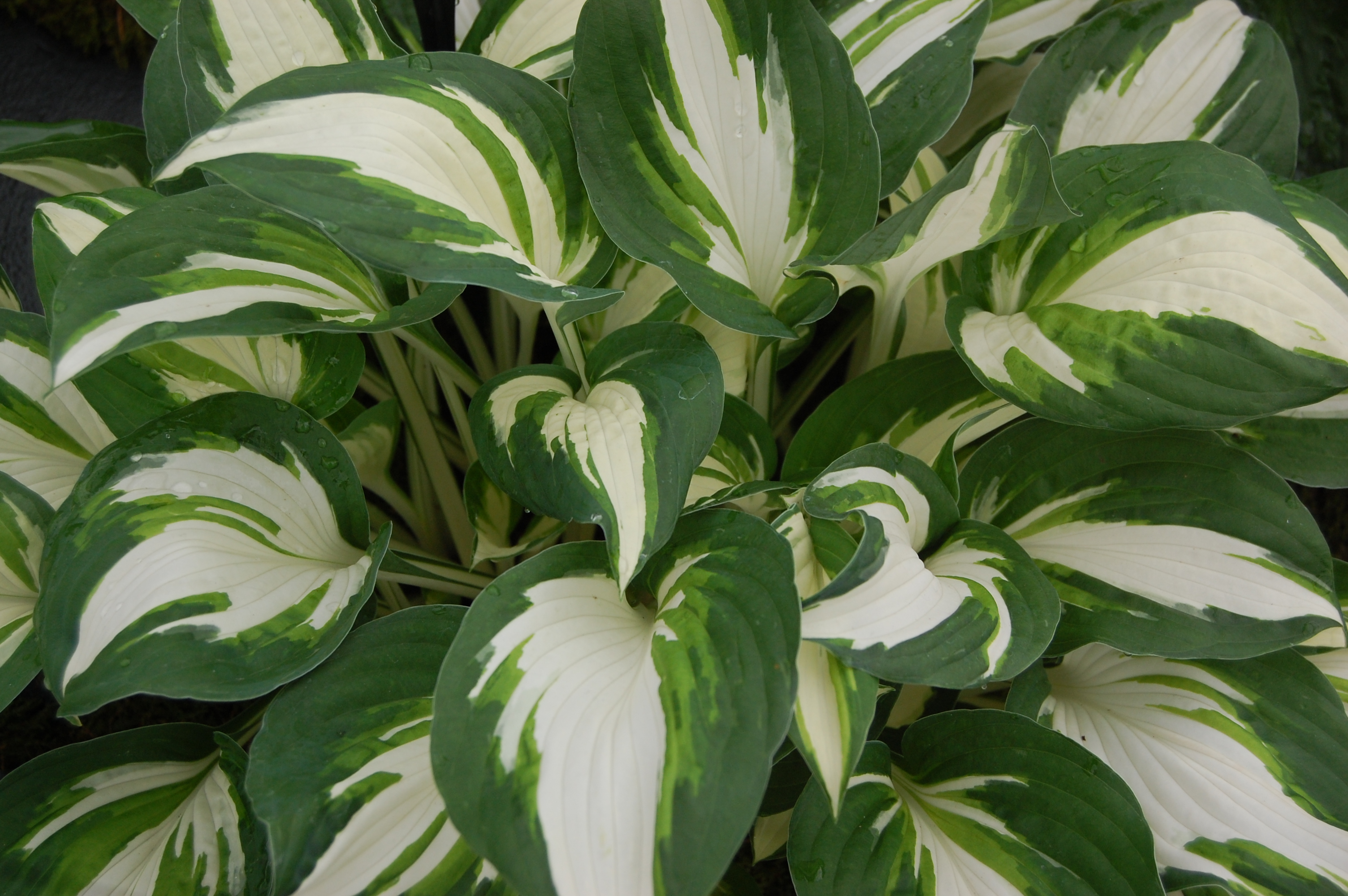 Hosta 'Enterprise', displayed at Gardeners' World Live.